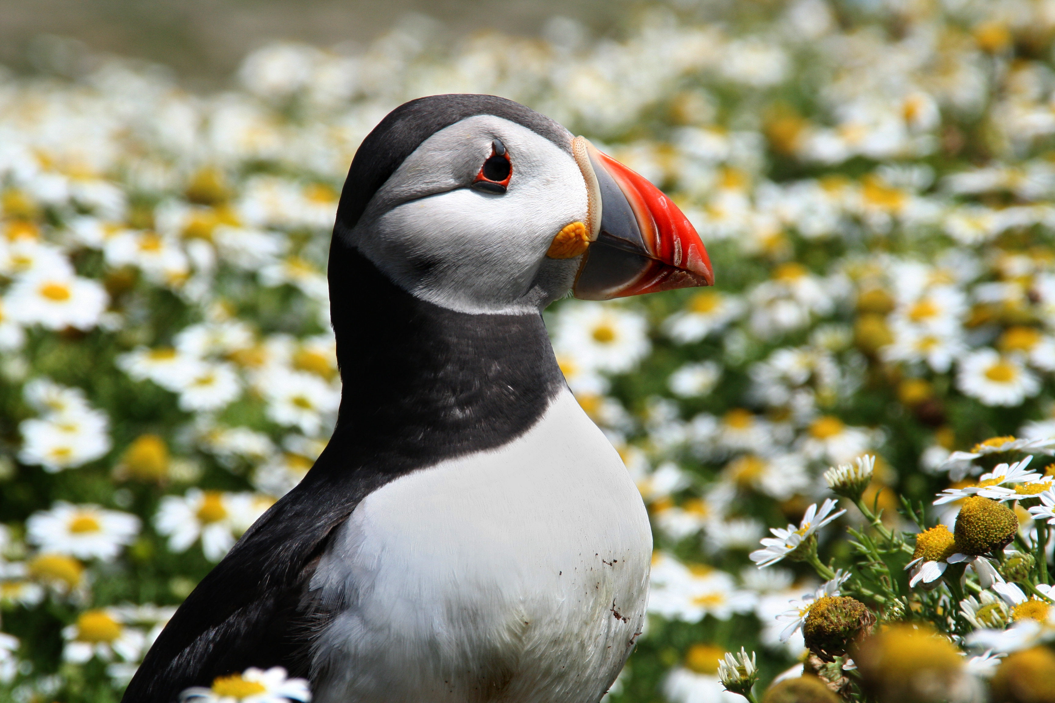 Altantic Puffin. Taken at Skomer Island, Pembrokshire, UK